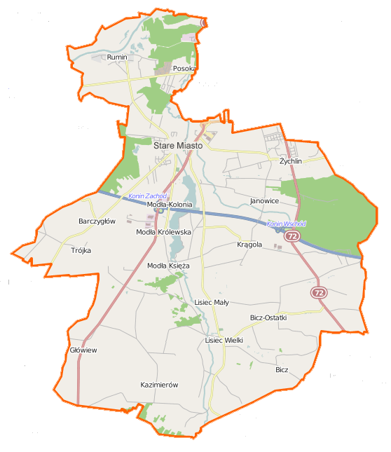 Map of Gmina Stare Miasto, Poland This map of Stare Miasto (gmina) was created from OpenStreetMap project data, collected by the community. This map may be incomplete, and may contain errors. Don't rely solely on it for navigation. Border coordinates52.225018.1292←↕→18.321052.0890